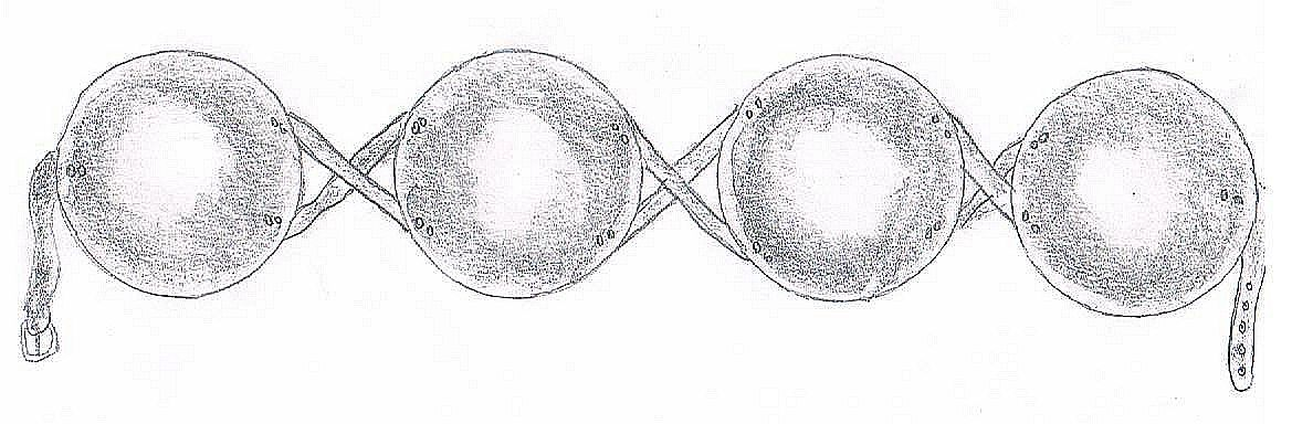 Tibetian char-aina